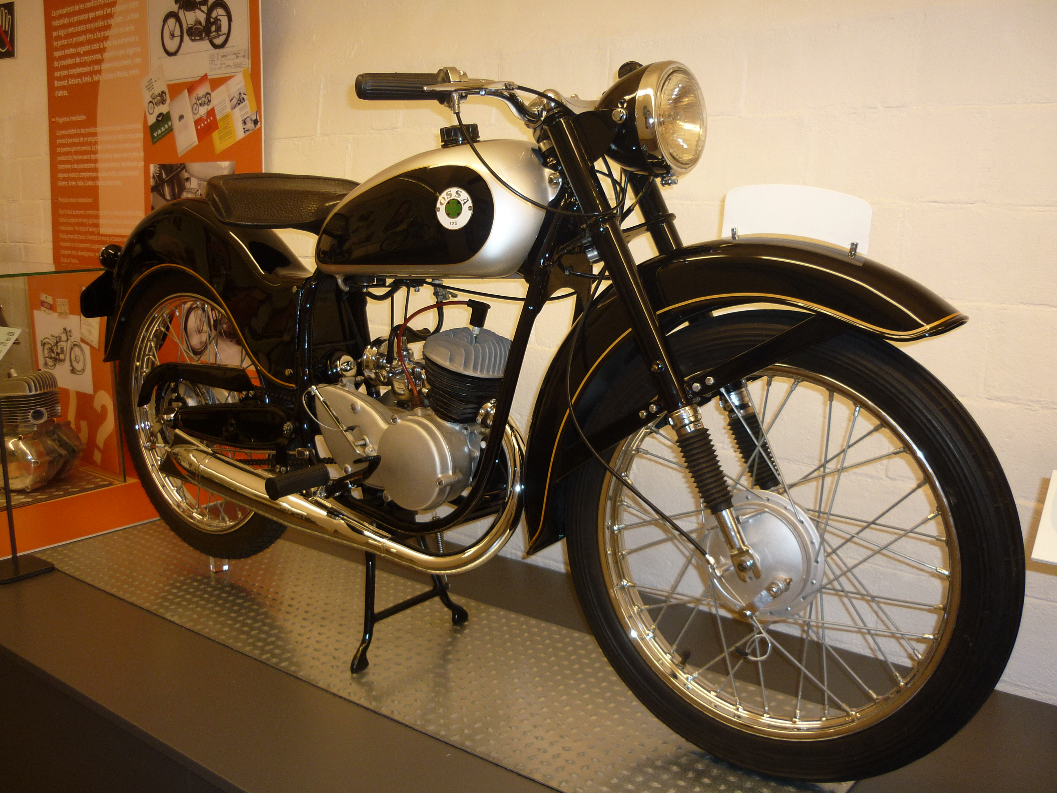 OSSA 125 125cc (1951).Museu de la Moto de Barcelona (Catalonia).